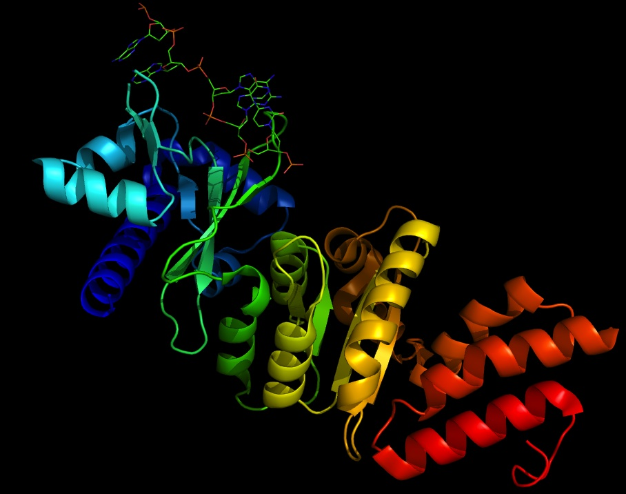 DNA primase bound to single stranded DNA (created with Pymol)